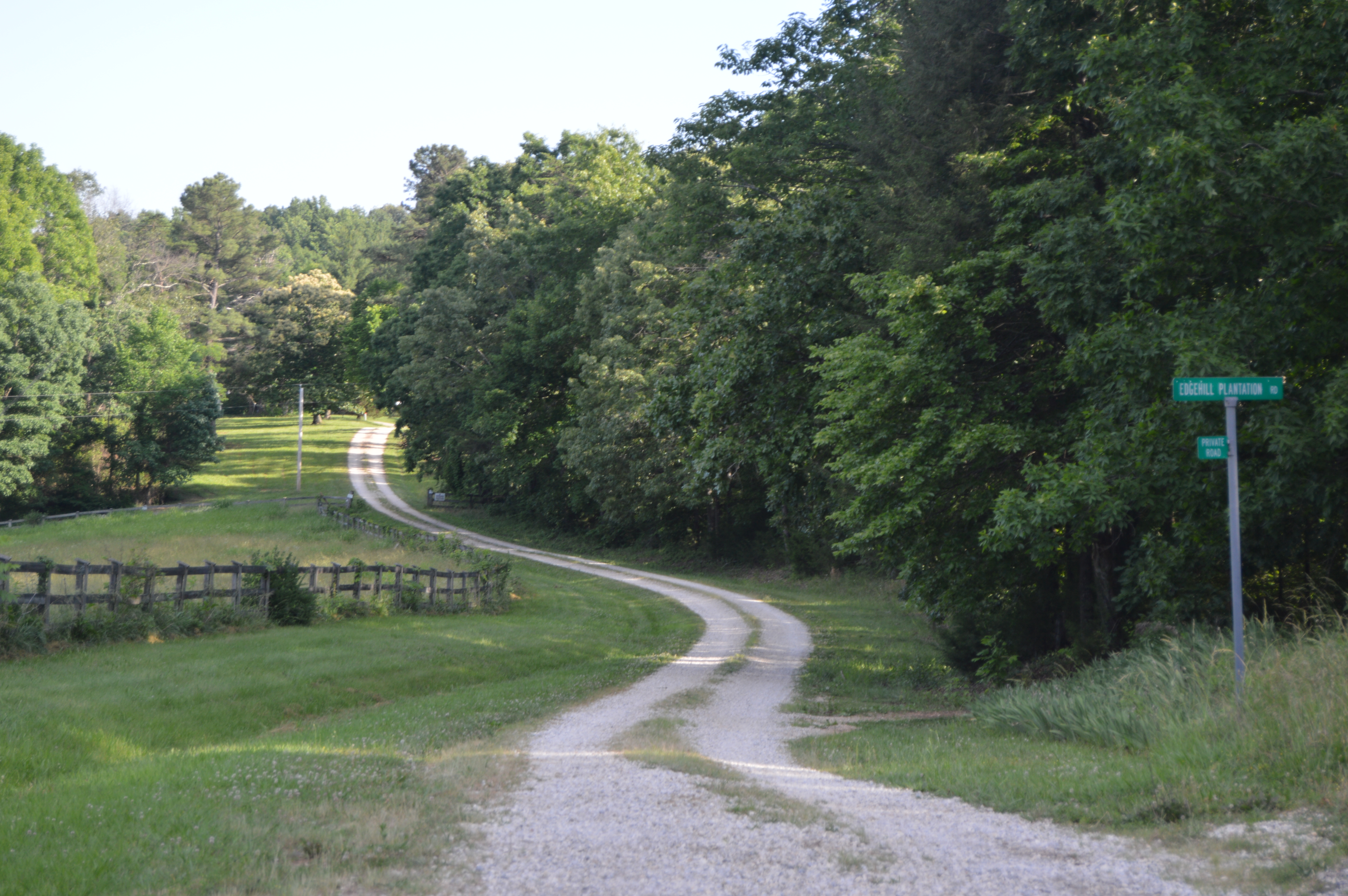 Entrance to the Edge Hill plantation, located on Stapleton Road southeast of Amherst in Amherst County, Virginia, United States. The estate is listed on the National Register of Historic Places.